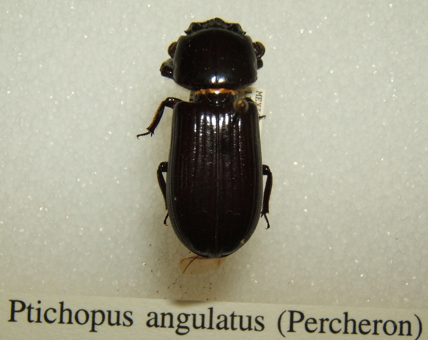 Ptichopus angulatus adult taken by Shawn Hanrahan at the Texas A&M University Insect Collection in College Station, Texas.